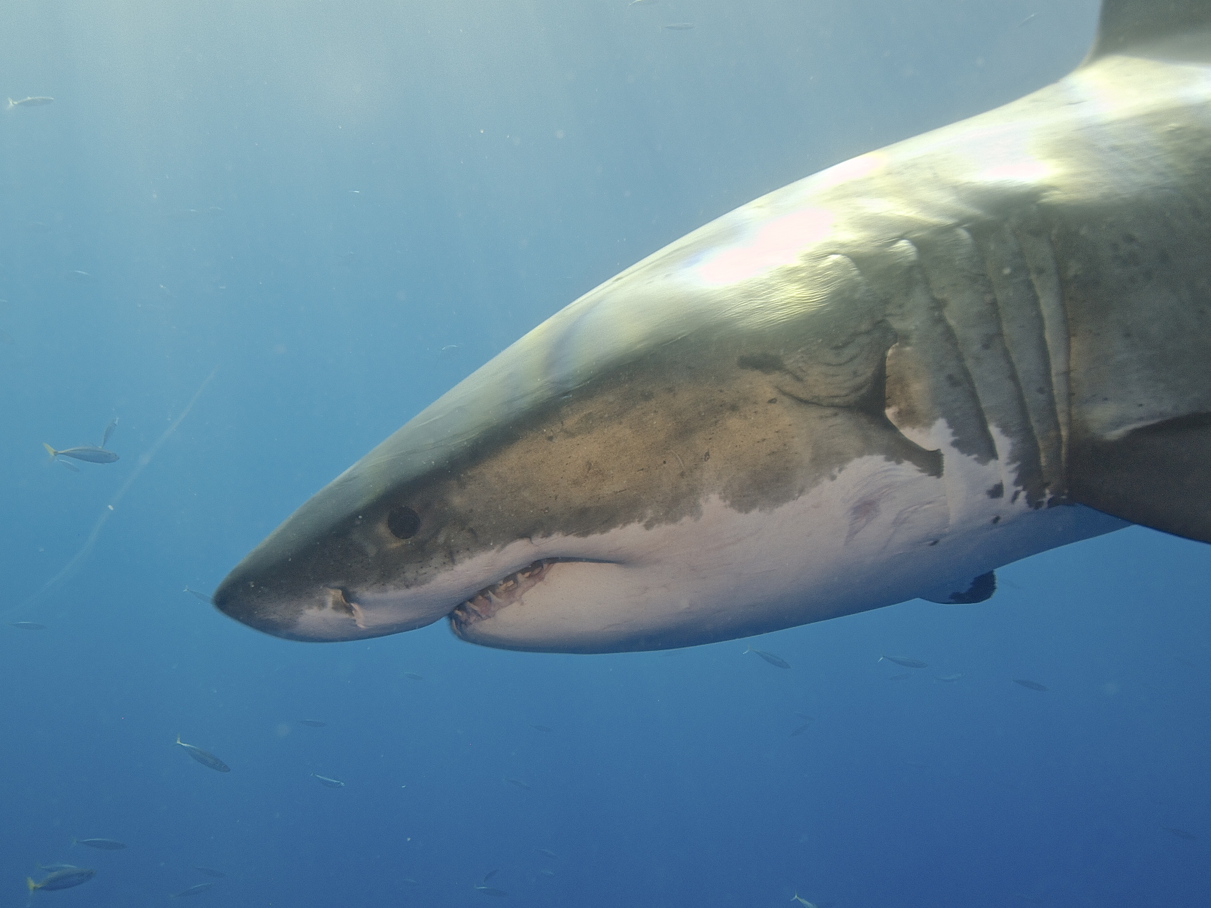 Great White Shark